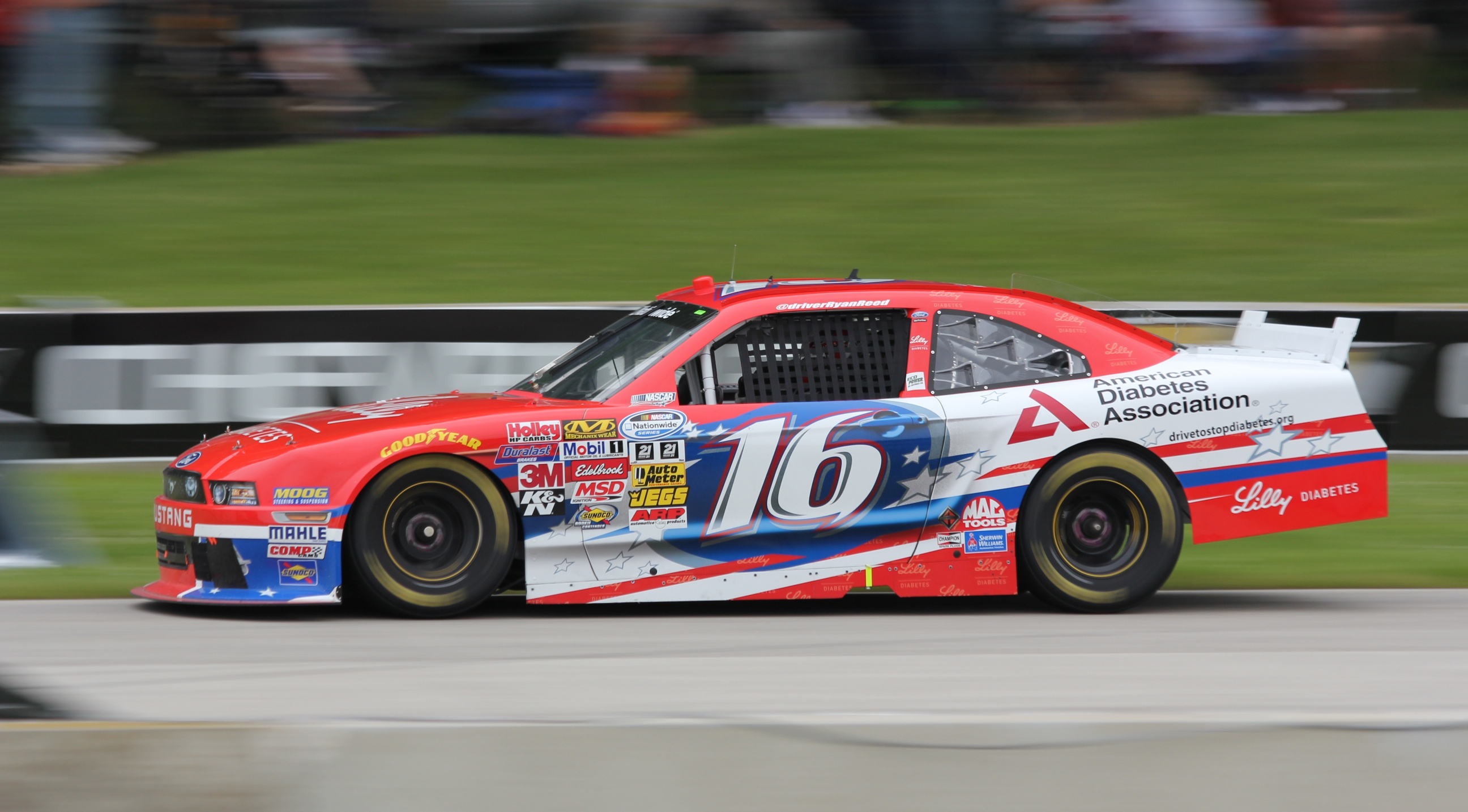 The NASCAR Nationwide Series car of Ryan Reed at the Gardner Denver 200 at Road America